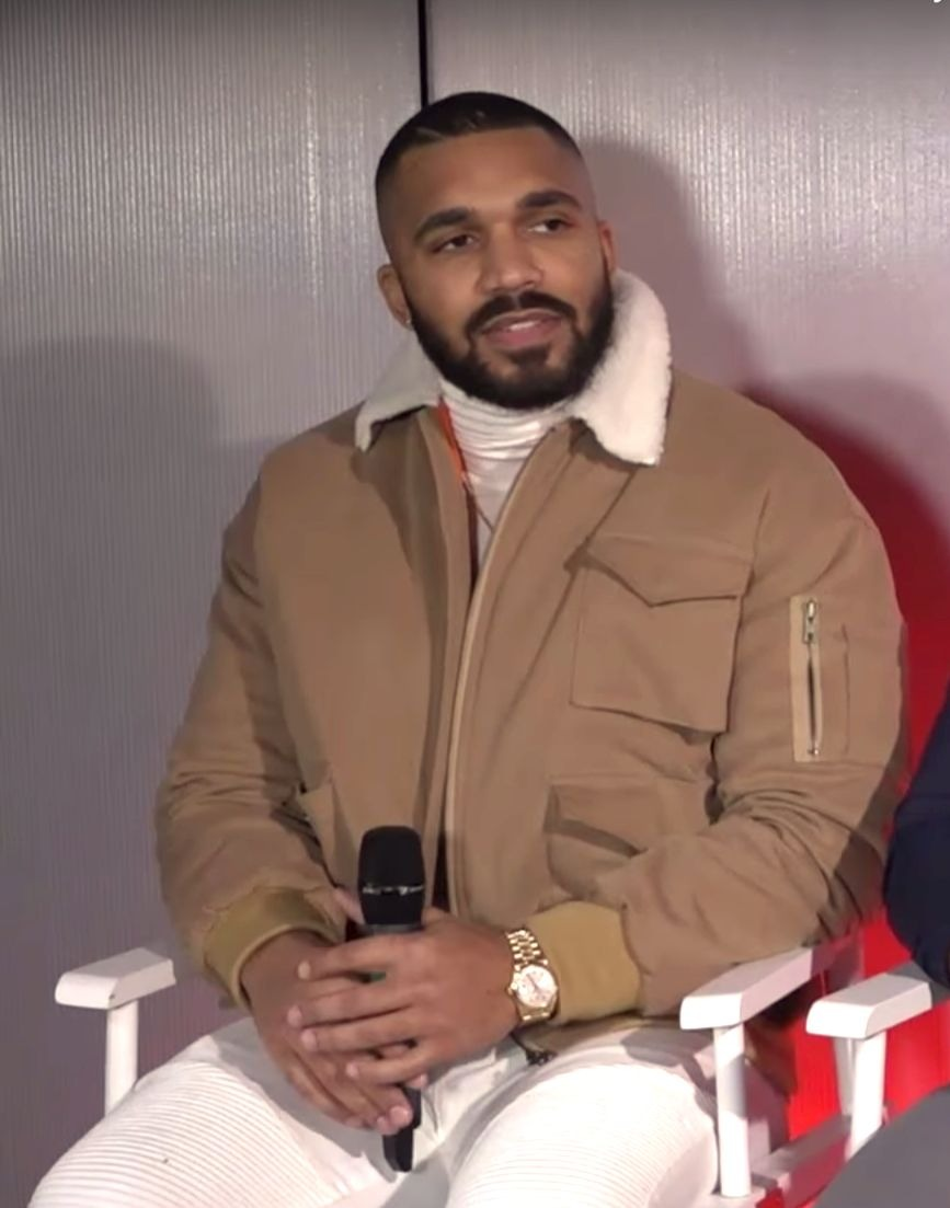 Man Talk: The Quiet Storm Ask LaVan Davis, Tyler Lepley & Eltony Williams Relationship Questions